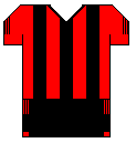 German football uniform